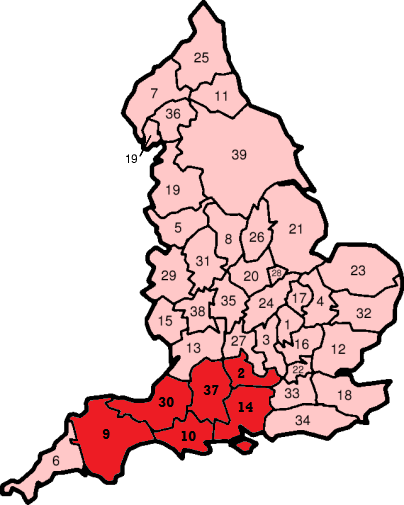 I would've upped it as "It is a derivative work of a file from Commons", but that entire process seemed willfully confusing, so unfortunately here it is. It is based on this image with the relevent counties coloured in.